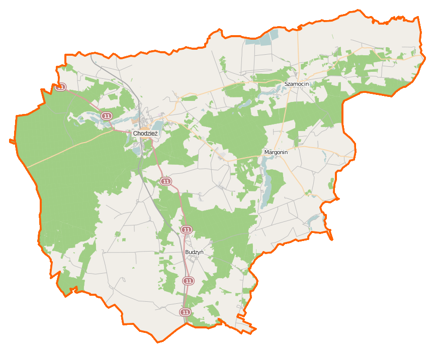 Map of Powiat chodzieski, Poland This map of Powiat chodzieski was created from OpenStreetMap project data, collected by the community. This map may be incomplete, and may contain errors. Don't rely solely on it for navigation. Border coordinates53.097716.7190←↕→17.316552.8065